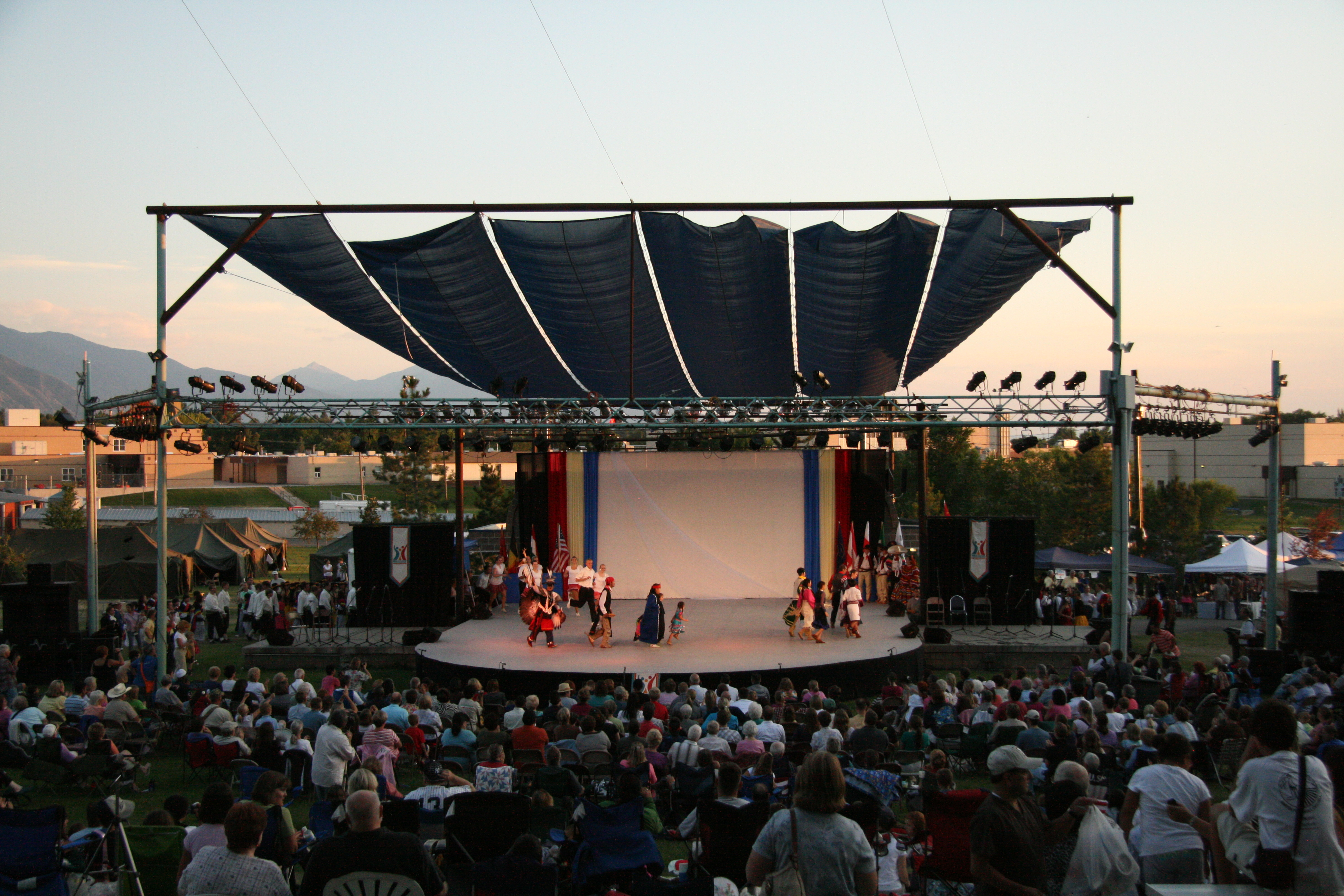 Dancers perform at the Springville World Folkfest in Springville, Utah.